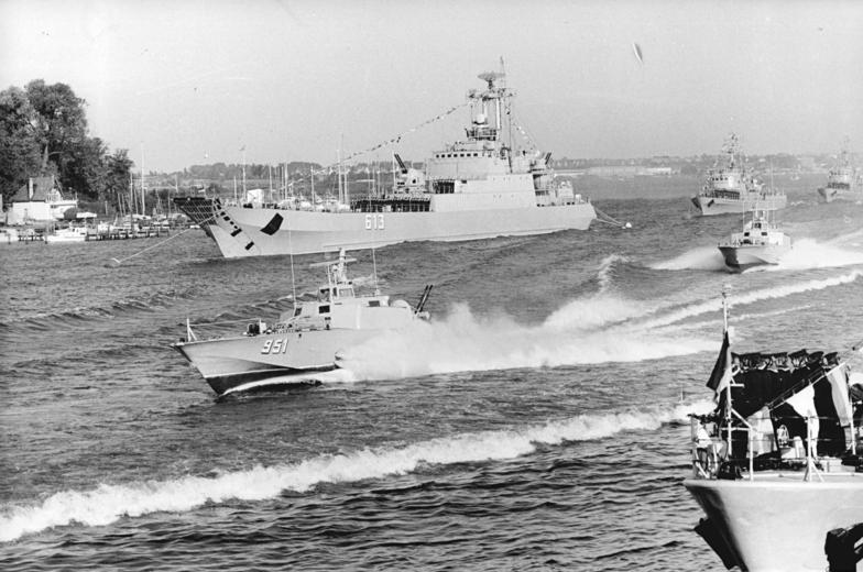 Rostock, Fleet Parade. Small fast attack craft Project 131 Type "Libelle" show off their high speed and maneuverability (e.g. boat "951"). In the background - landing ship Frankfurt/Oder of Projekt 108 Typ Hoyerswerda (number "613")